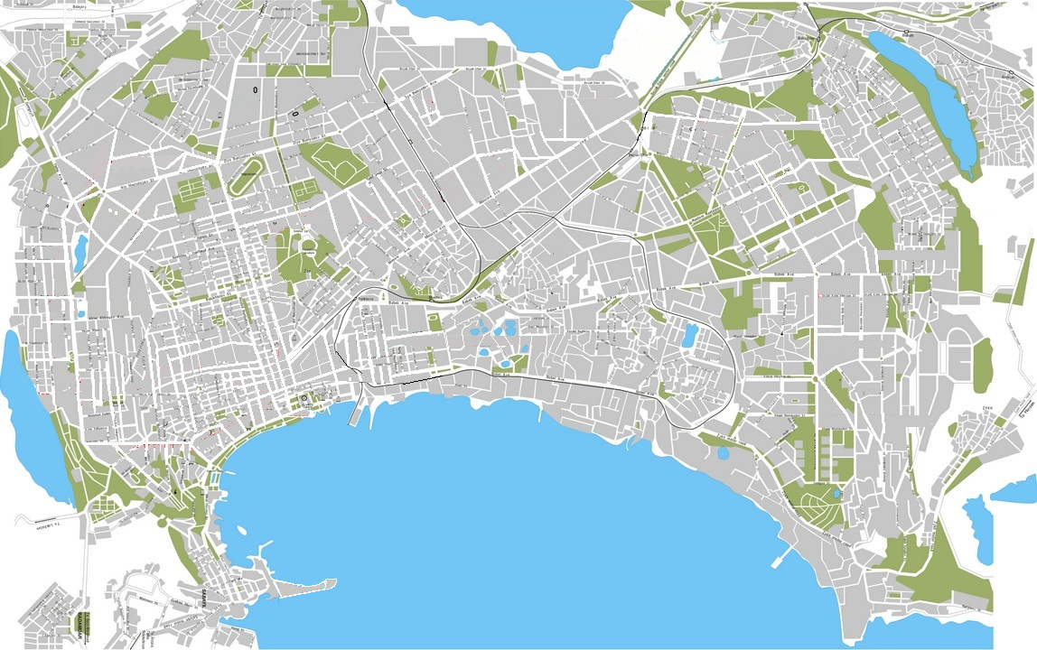 Map of Baku, Azerbaijan